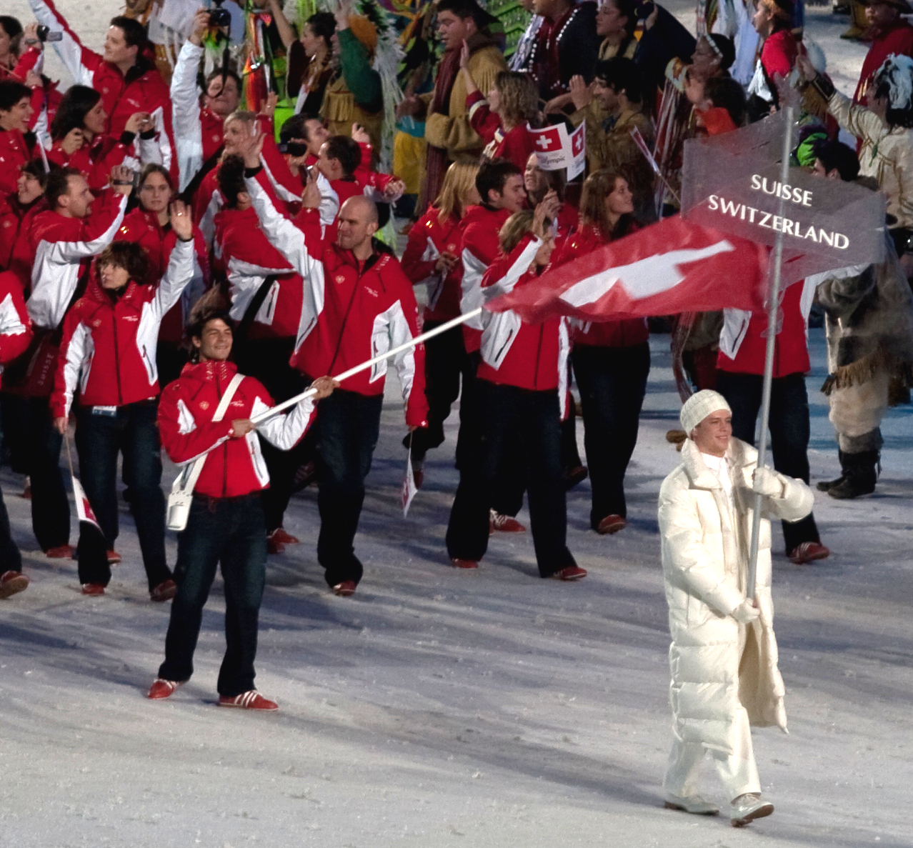 The athletes from Switzerland entering the stadium at the opening ceremonies of the 2010 Winter Olympics.